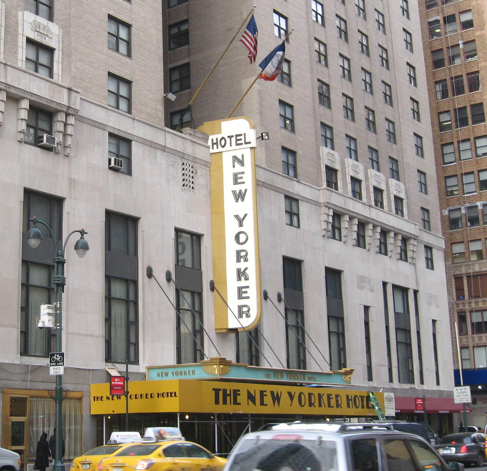 Looking northwest across 8th Avenue at New Yorker Hotel